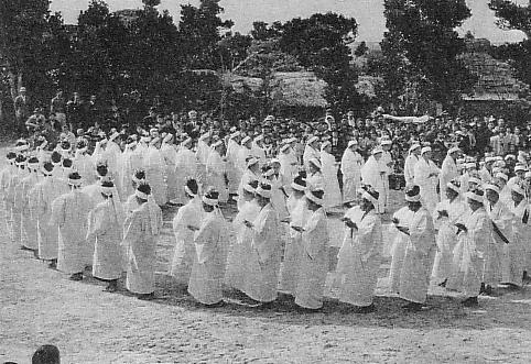 Izaiho(Ryukyuan religious ceremony)